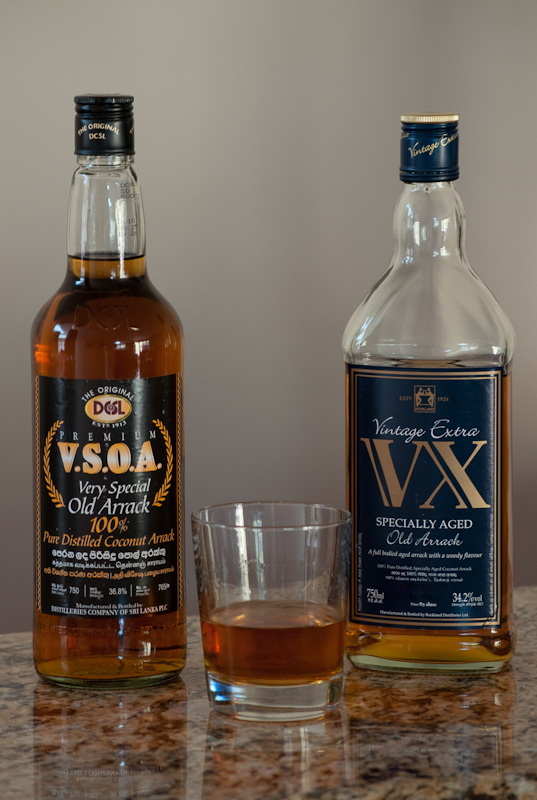 Bottles of Arrack from two different companies to give diversity on the article.